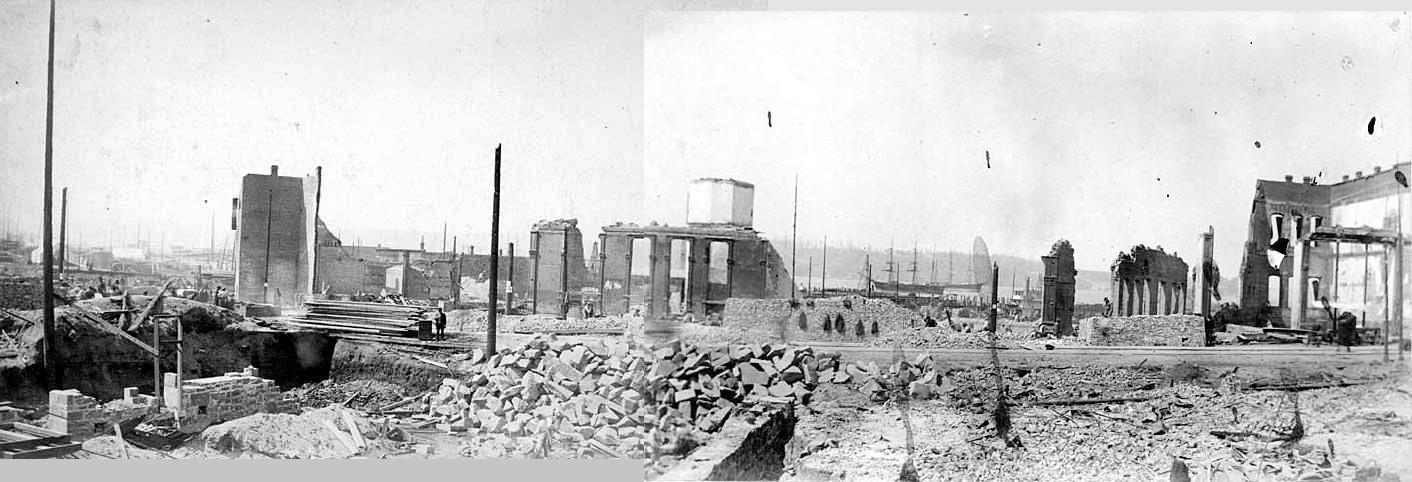 PH Coll 684.58 Subjects (LCTGM): Fires--Washington (State)--Seattle Subjects (LCSH): Great Fire, Seattle, Wash., 1889; First Avenue (Seattle, Wash.) Stitched